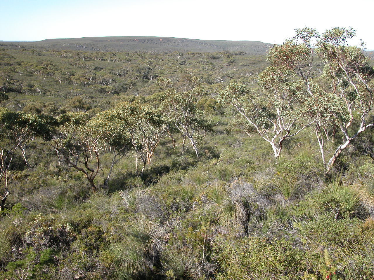 Author is BoundaryRider (self) - I took this photo 19th June 2008. Eucalypt sparse woodland with healthy understorey in Lesueur National Park, Western Australia, looking south-east from a small hill near the main carpark.